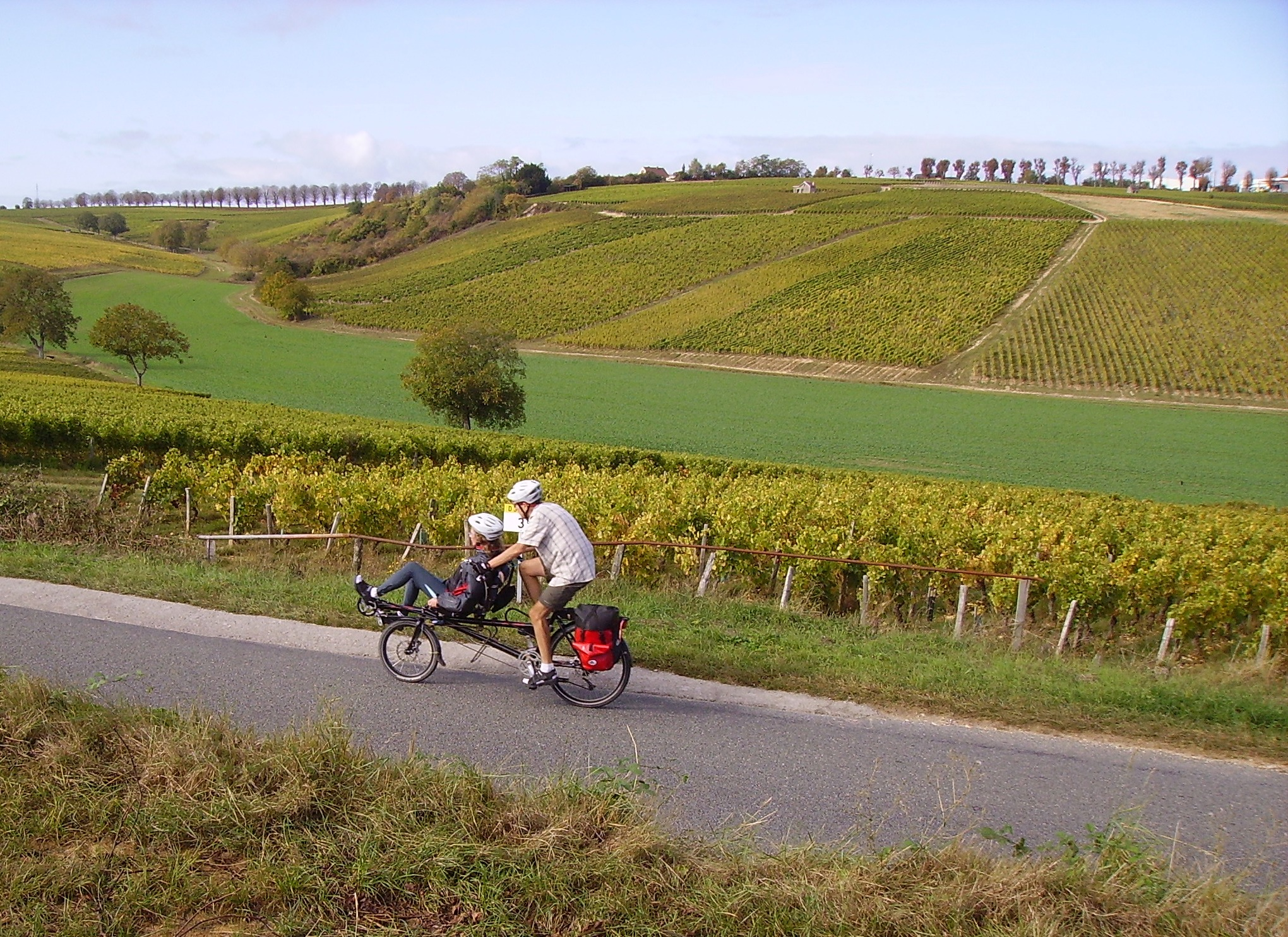 Tandem bicycle riding a hill near Sancerre, France.